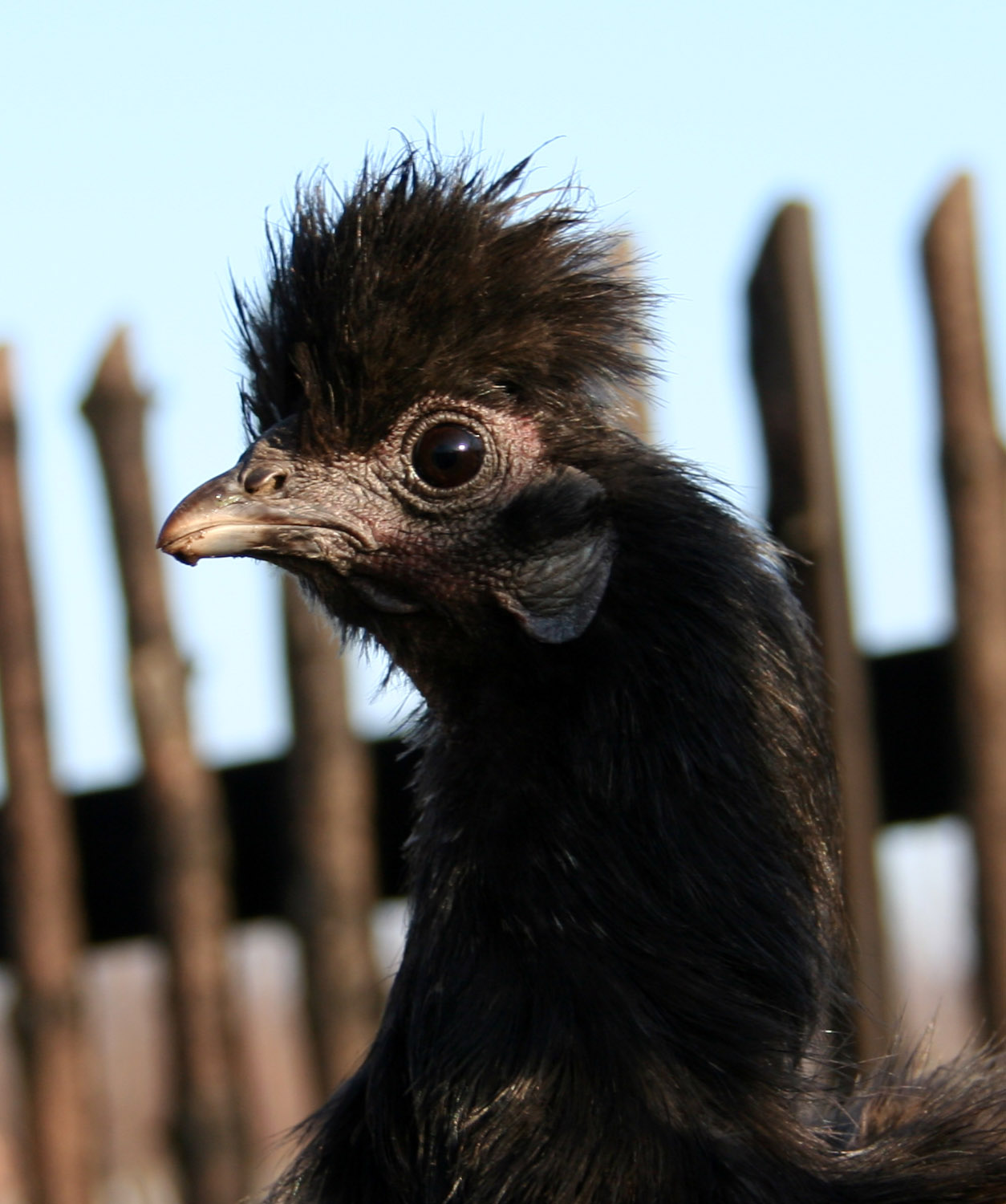 silkie one of chicken breeds